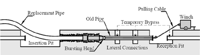 Explanation of pipe bursting